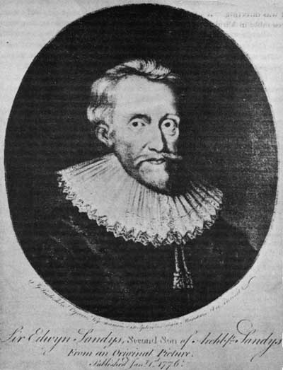 Edwin Sandys (1561-1629), American colonist